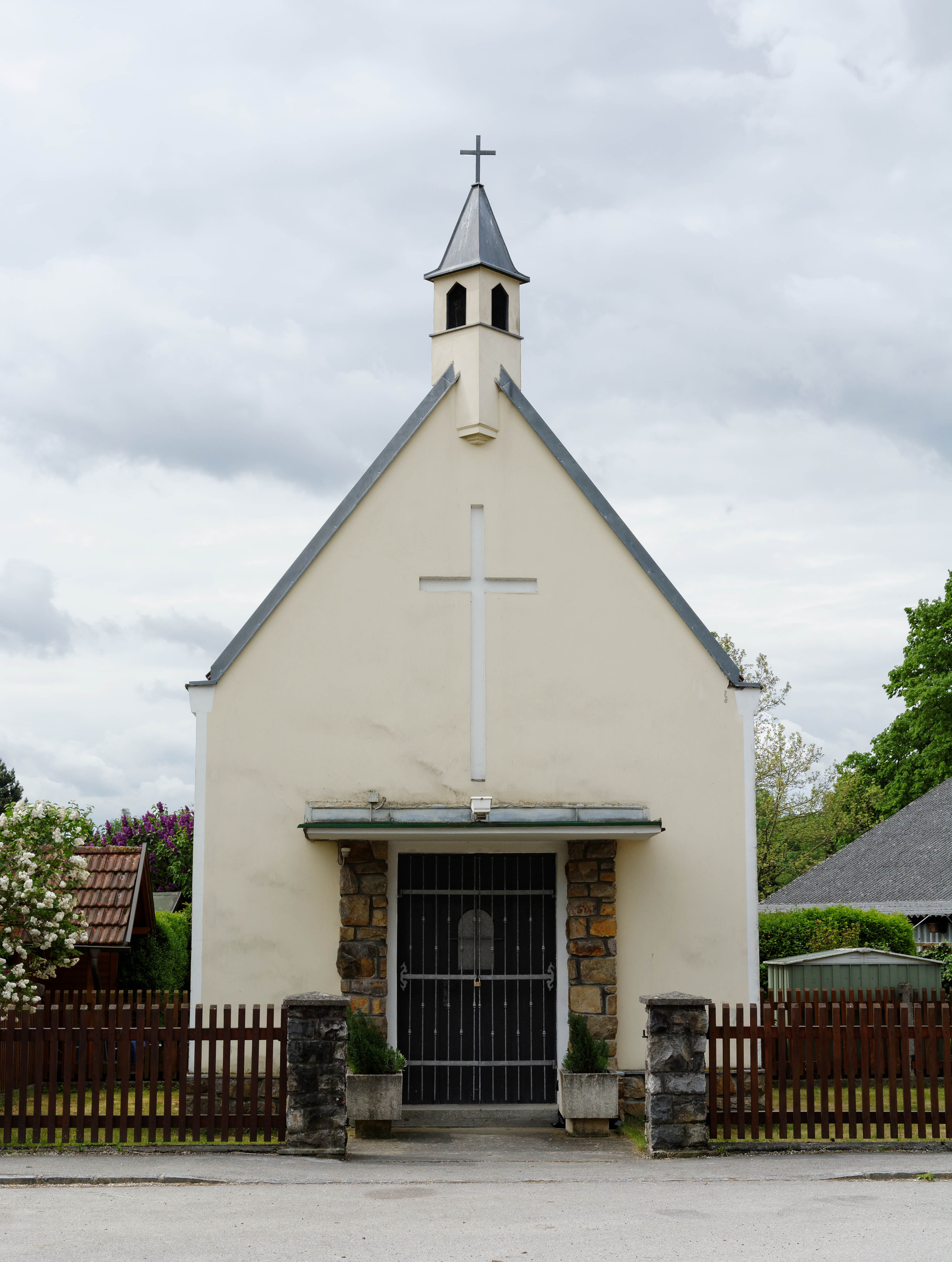 Chapel in Golling an der Erlauf, Lower Austria, Austria